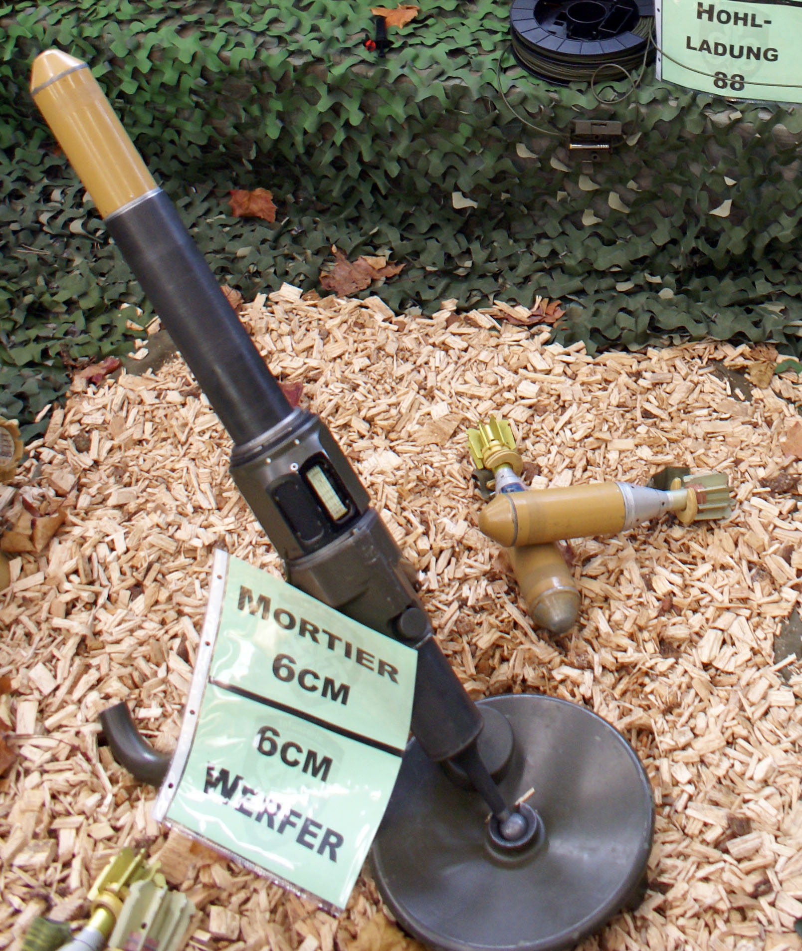 Swiss Army. 6cm mortar.